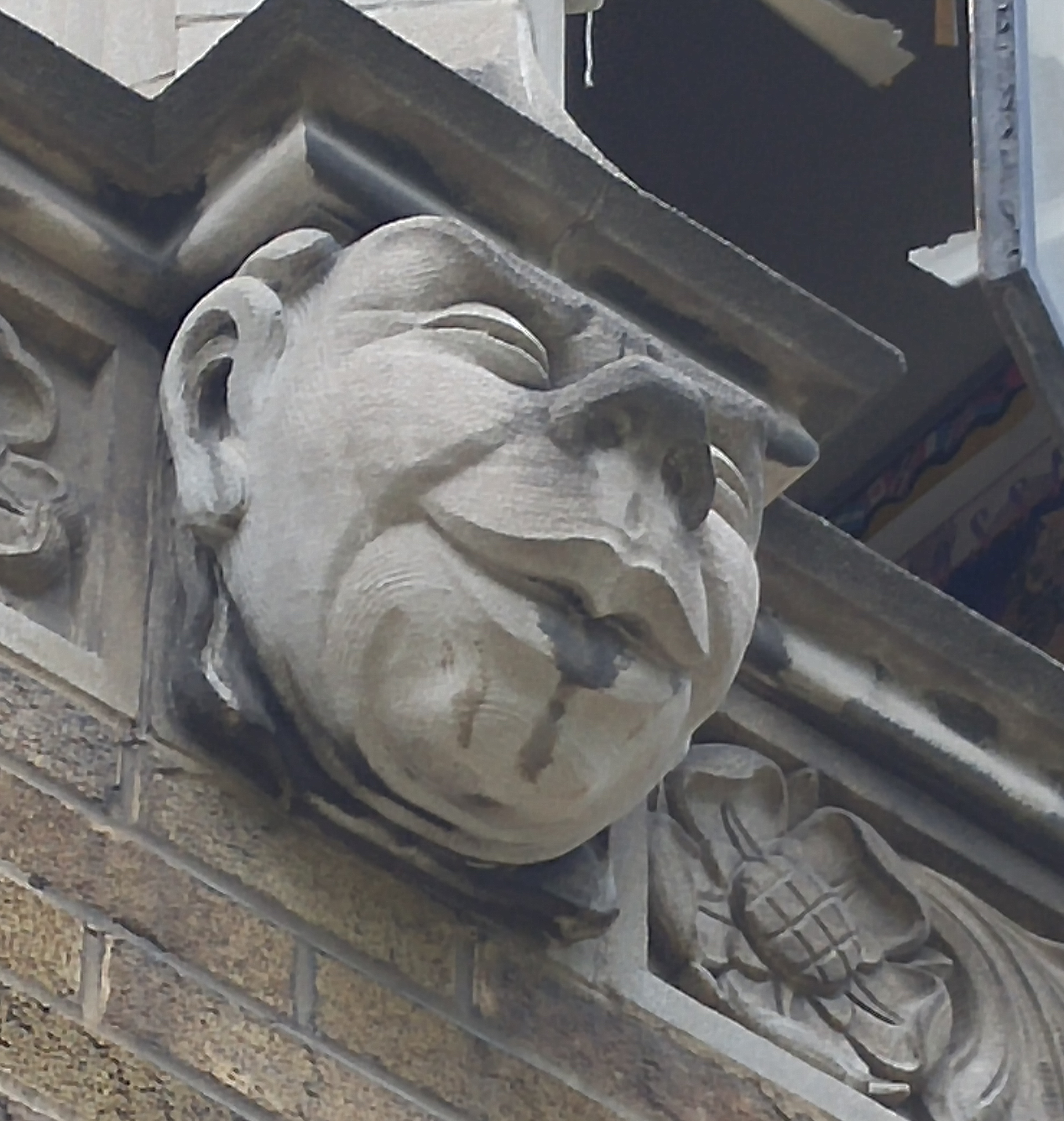 A grotesque (NOT A GARGOYLE) above a side entrance to the building